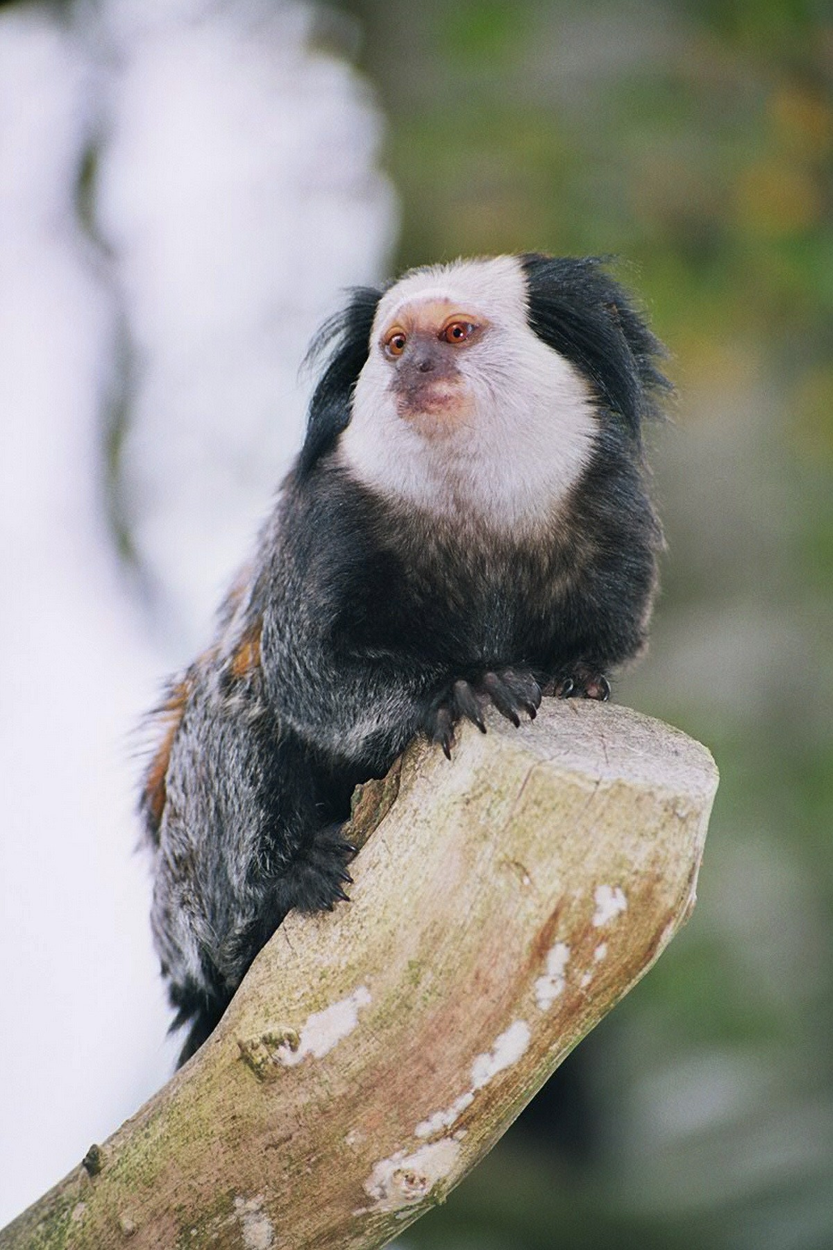 Zoo Rostock: Weißkopf-Büschelaffe (Callithrix geoffroyi)